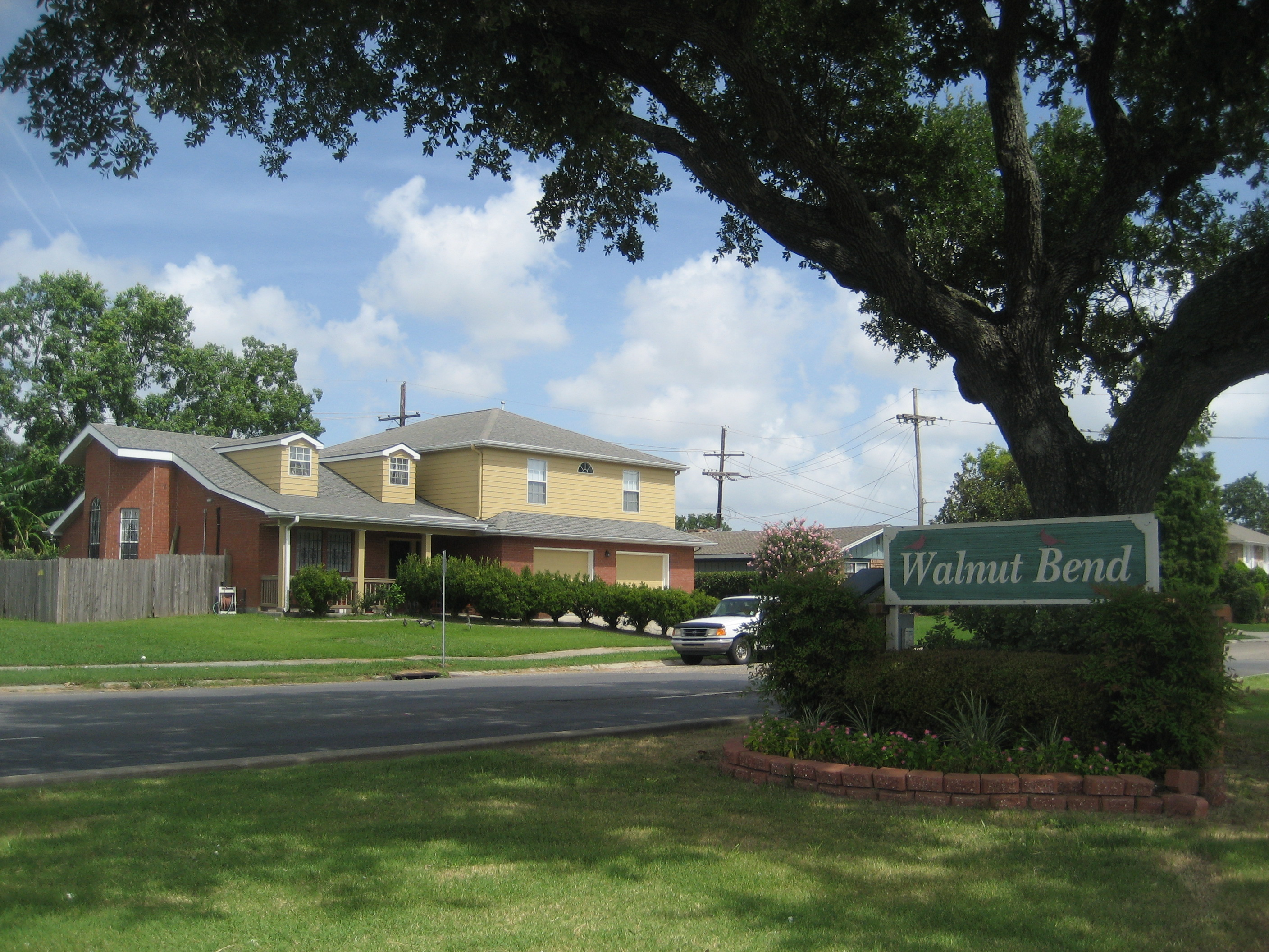 Algiers section of New Orleans: Sign for "Walnut Bend" neighborhood